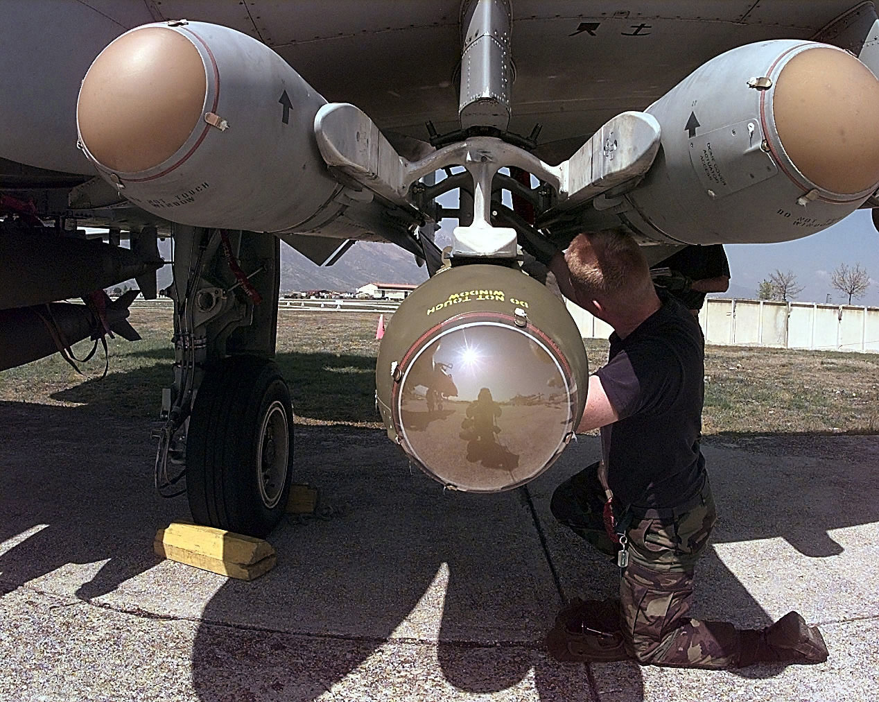 SRA Jason Chaffin, 81st Fighter Squadron, Spangdahlem Air Base, Germany, loads an AGM-65 Maverick Missile on an A-10 Thunderbolt on Friday, April 10, 1999. The nose of the AGM-65 has a camera that the pilot (not shown) uses to guide the missile to the target. SRA Chaffin is deployed to Aviano Air Base, Italy, supporting NATO Operation Allied Force. Location: AVIANO AIR BASE, PORDENONE ITALY (ITA)